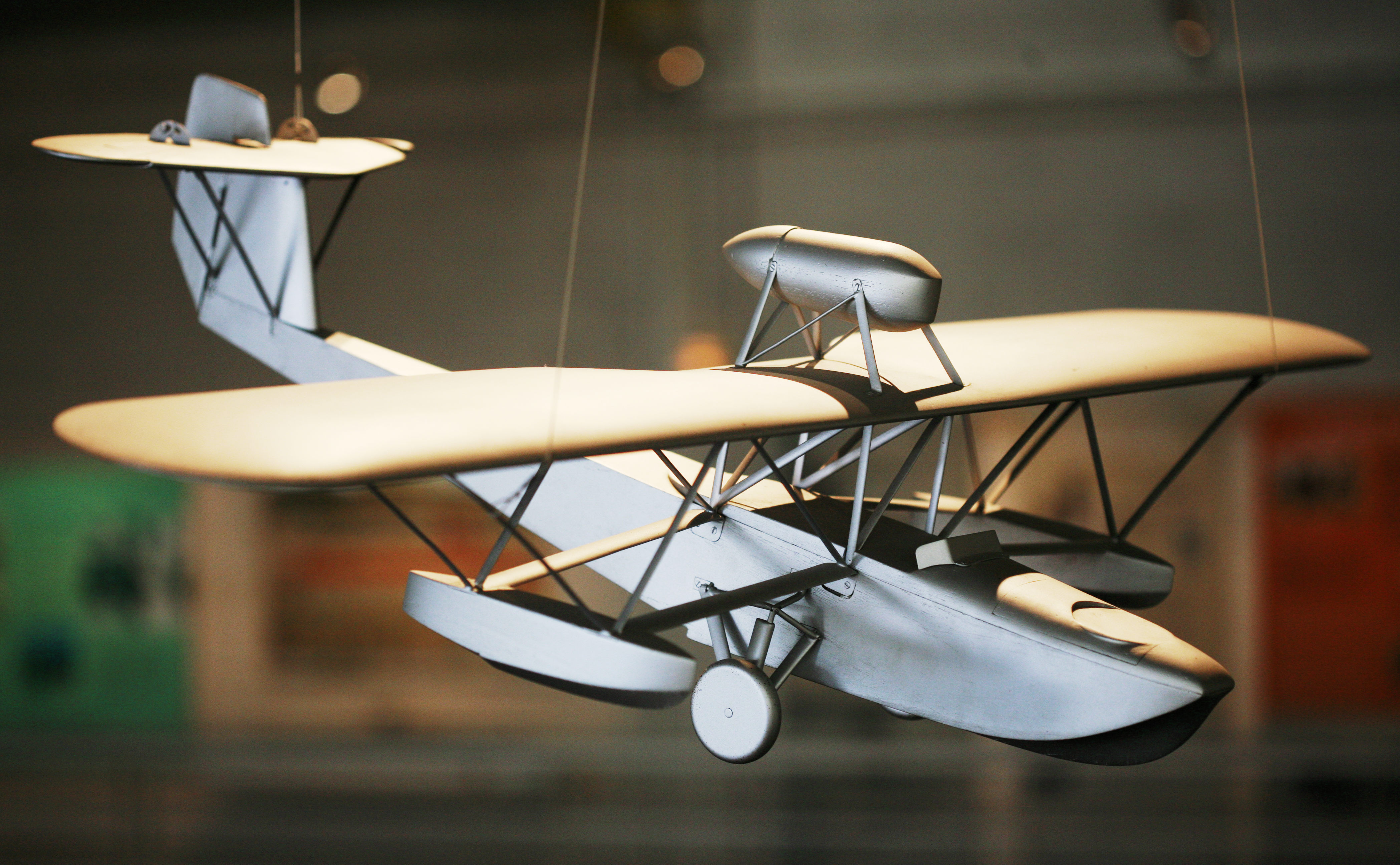 Wind tunnel model of a Loire 501 seaplane. On display at the Écomusée de Saint-Nazaire.